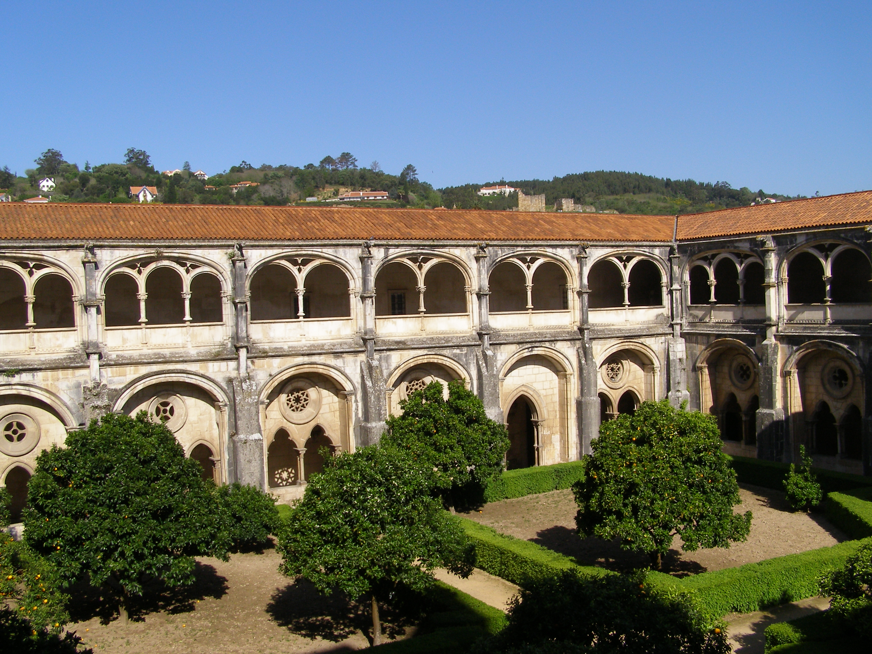 Partial view of King Dennis Cloister, or Cloister of Silence (14th century), Monastery of Alcobaça.